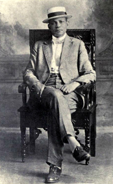 Charles Henry Douglass, founder of the black-owned and operated Douglass Theater in Macon, GA in 1911.